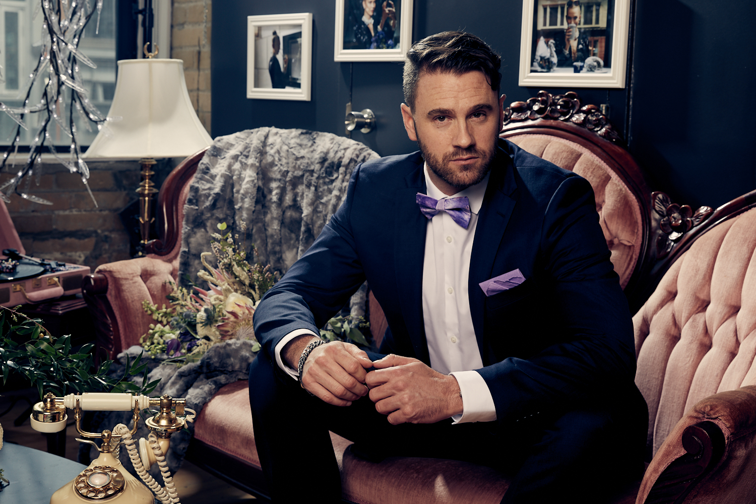 Julian Bailey at NKPR IT Lounge TIFF 2018